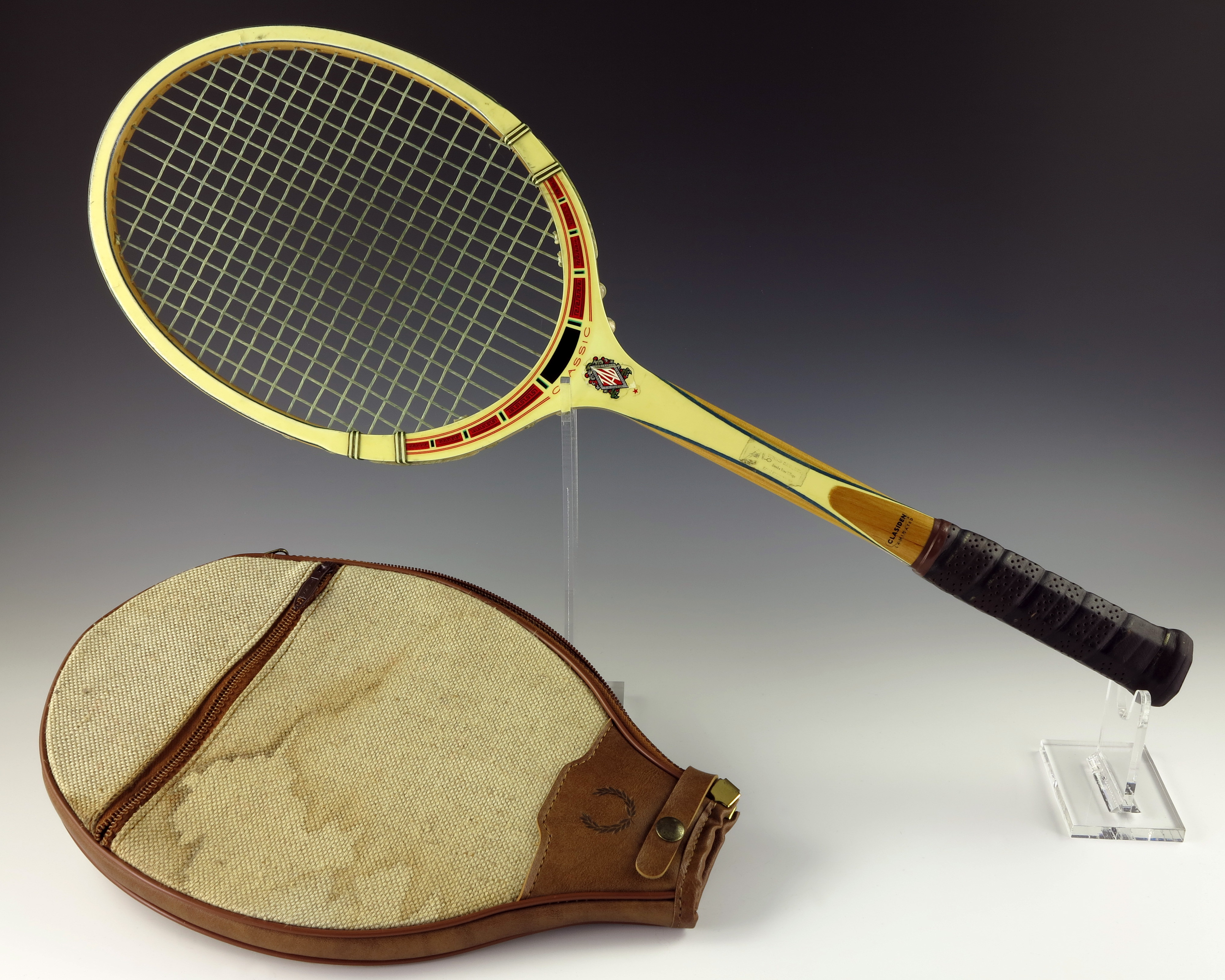 Tennis racket owned and used by President Gerald R. Ford at the White House. Ford played tennis at the tennis court on the grounds of the White House for exercise and stress relief. Gift of Gerald R. Ford.